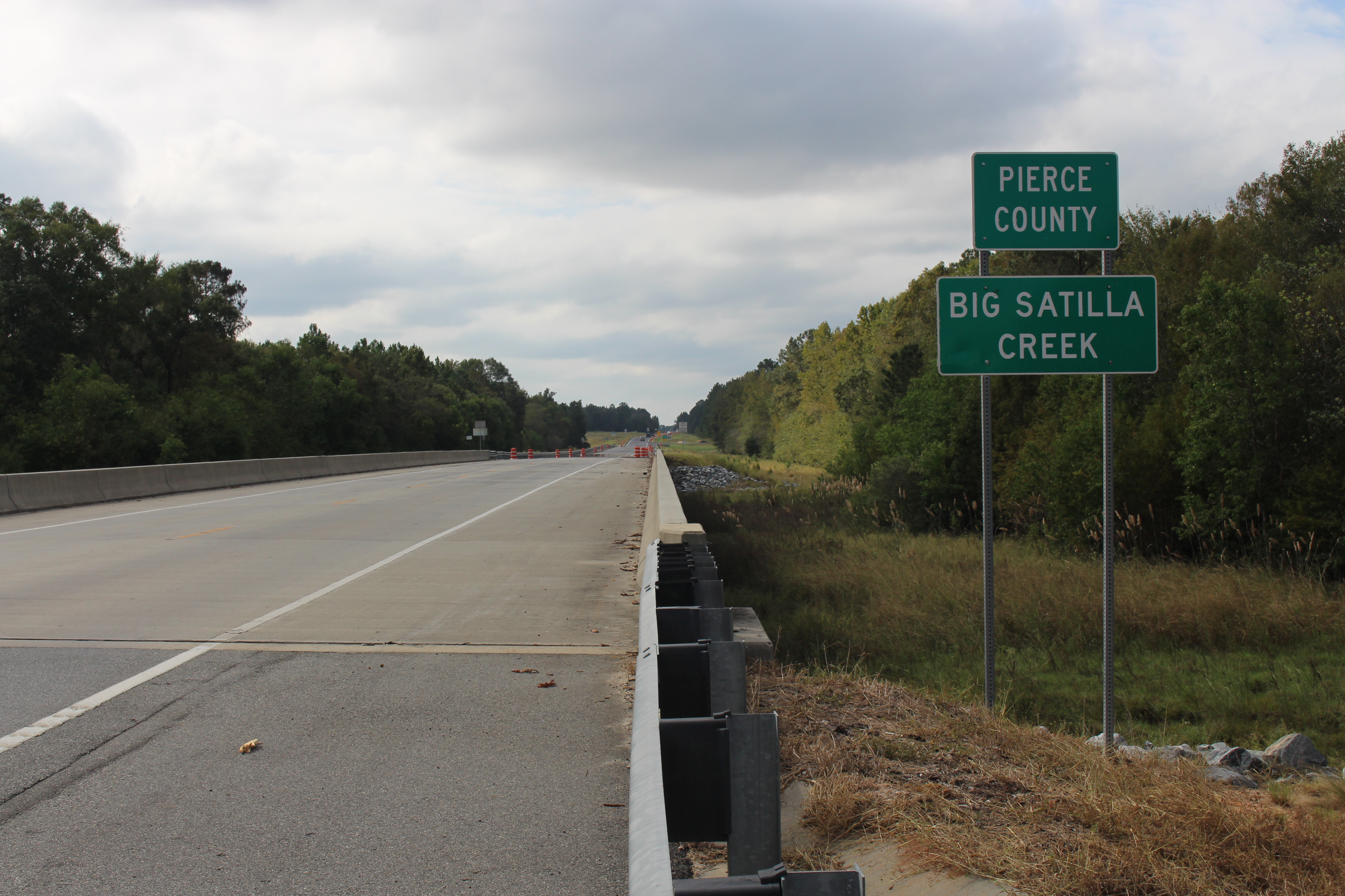 Big Satilla Creek bridge, GA15 121NB, Georgia